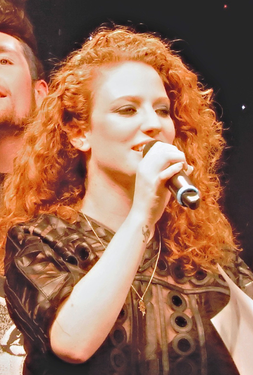 Ellie Goulding & Friends, O2 Shepherds Bush Empire